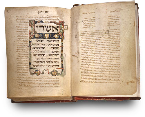 Folios 1b-2a - Psalm 1 - ‘Happy is the man that hath not walked in the counsel of the wicked, nor stood in the way of sinners, nor sat in the seat of the scornful.’ The opening psalm is illuminated only with the first word of the psalm ‘ashrei’ and a decorative border.